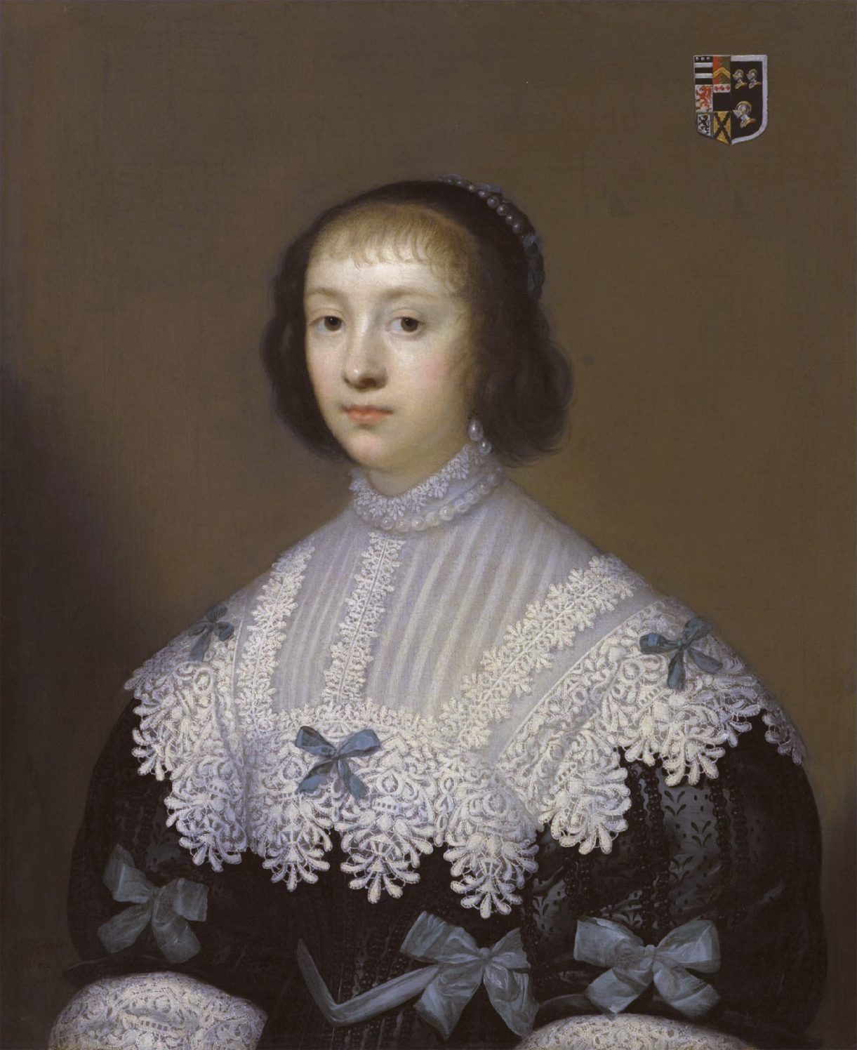 Margaret Holliday (d. 1672), a daughter and coheiress of William Holliday, an Alderman of the City of London, and wife of Sir Edward Hungerford (1596–1648) of Corsham, Wiltshire and of Farleigh Castle in Wiltshire (now Somerset). Arms of Hungerford impaling Holliday. Arms granted in 1605 to his cousin Leonard Holliday Lord Mayor of London in 1605[1]: Sable, three close helmets argent garnished or within a bordure engrailed of the second (Guillim, Display of Heraldry[2]). The arms shown here seem to show a bordure argent, not or, and not engrailed, perhaps a heraldic difference.